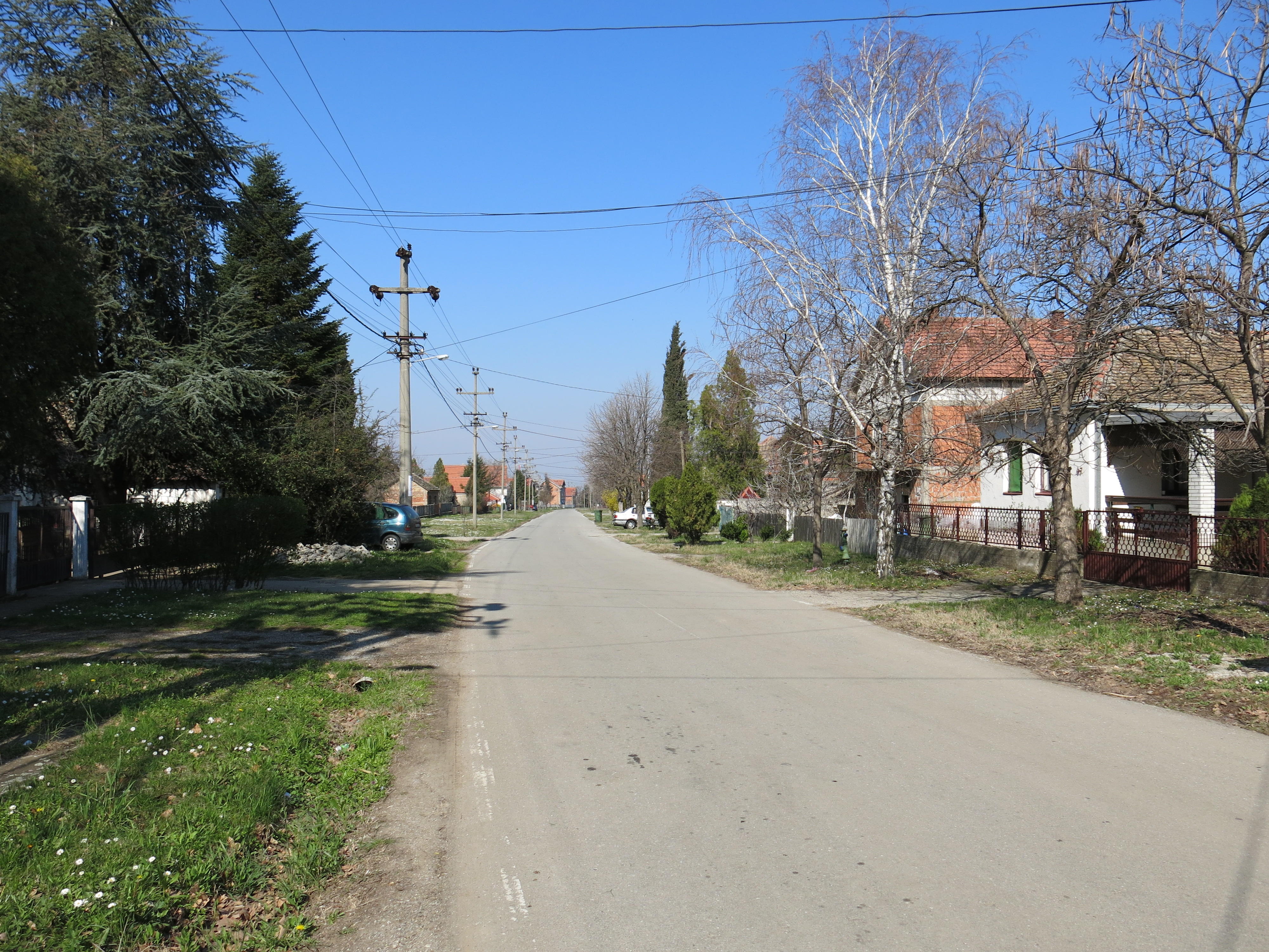 Rucka, Street